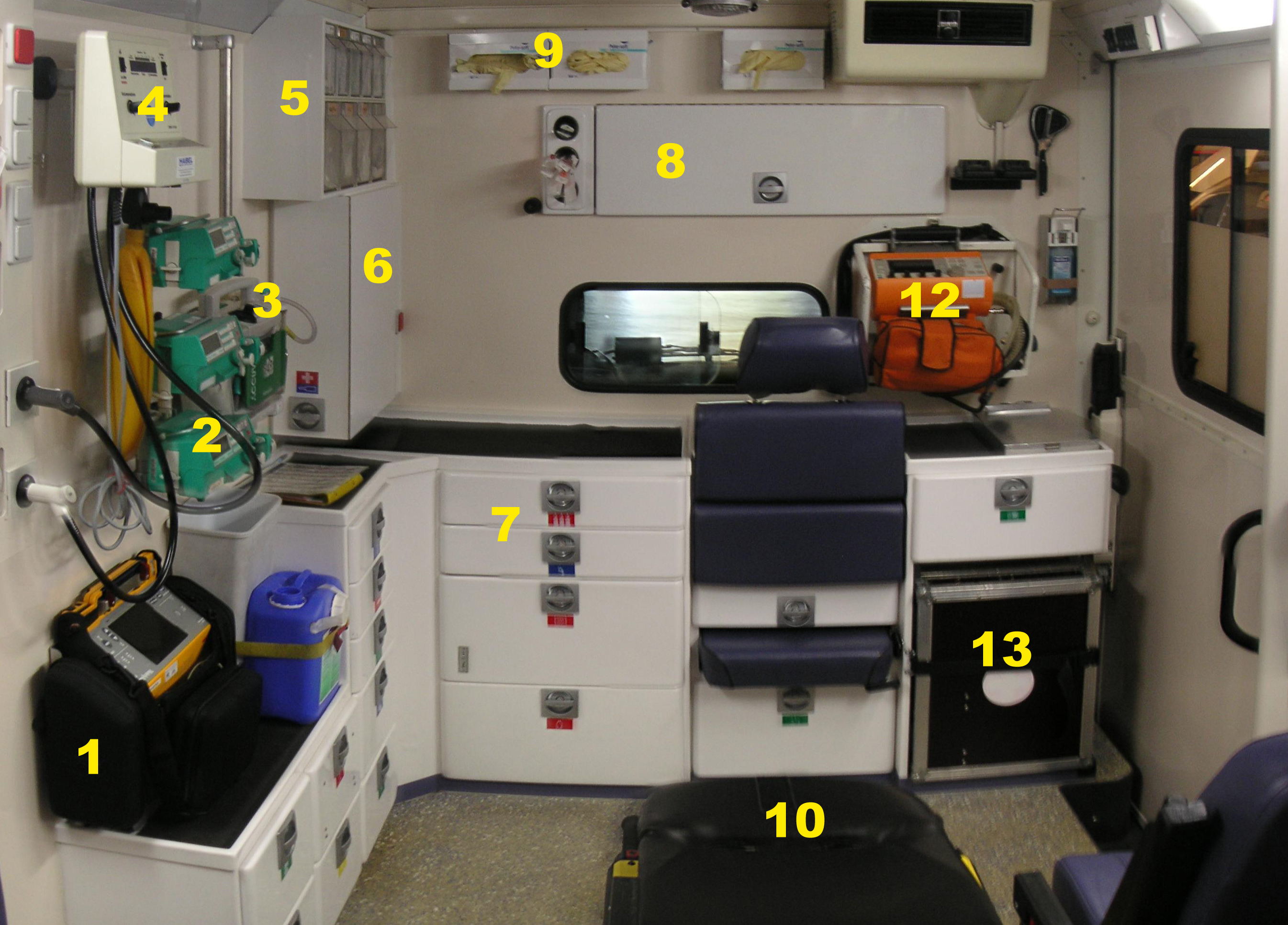 Interior of a Mobile Intensive Care Unit (MICU) Ambulance from Graz, Austria. This ambulance is primarily used for the emergency medical service but also for the transport of unstable patients from hospital to hospital. 1: Defibrillator/Monitor 2: Syringe driver 3: Suction unit 4: High Flow CPAP (used only for specific patients who are transported between hospitals) 5: Syringes and Needles 6: Drugs 7: Additional equipment, e.g. Infusions, Intubation equipment 8: Additional equipment, e.g. CPAP-Helmet, Immobilization equipment 9: Medical gloves 10: Stretcher 12: Oxylog 3000 ventilator 13: Emergency suitcase and backpack